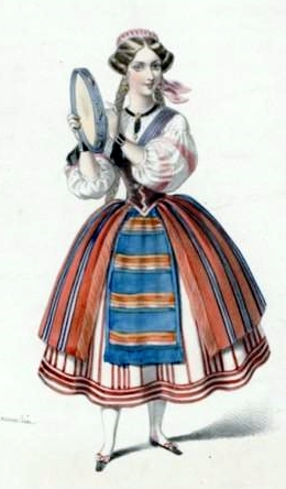 French soprano Anne-Benoîte-Louise Lavoye (1823-1897) as Georgette in Halévy's Le Val d'Andorre.